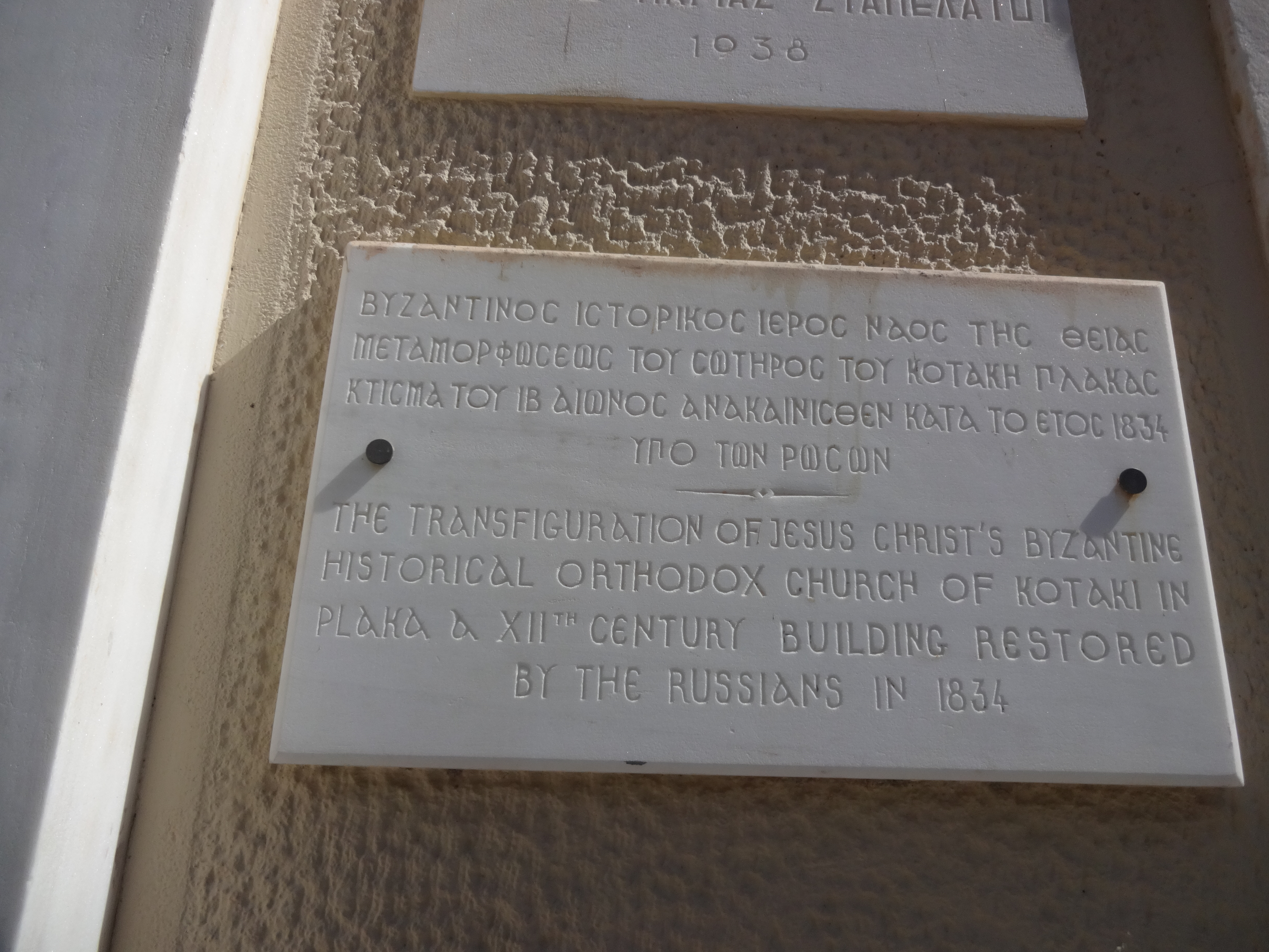 Marble plate in honors of Russians, who rebuild the church of Sotira Kotaki, Plaka, Athens, Greece